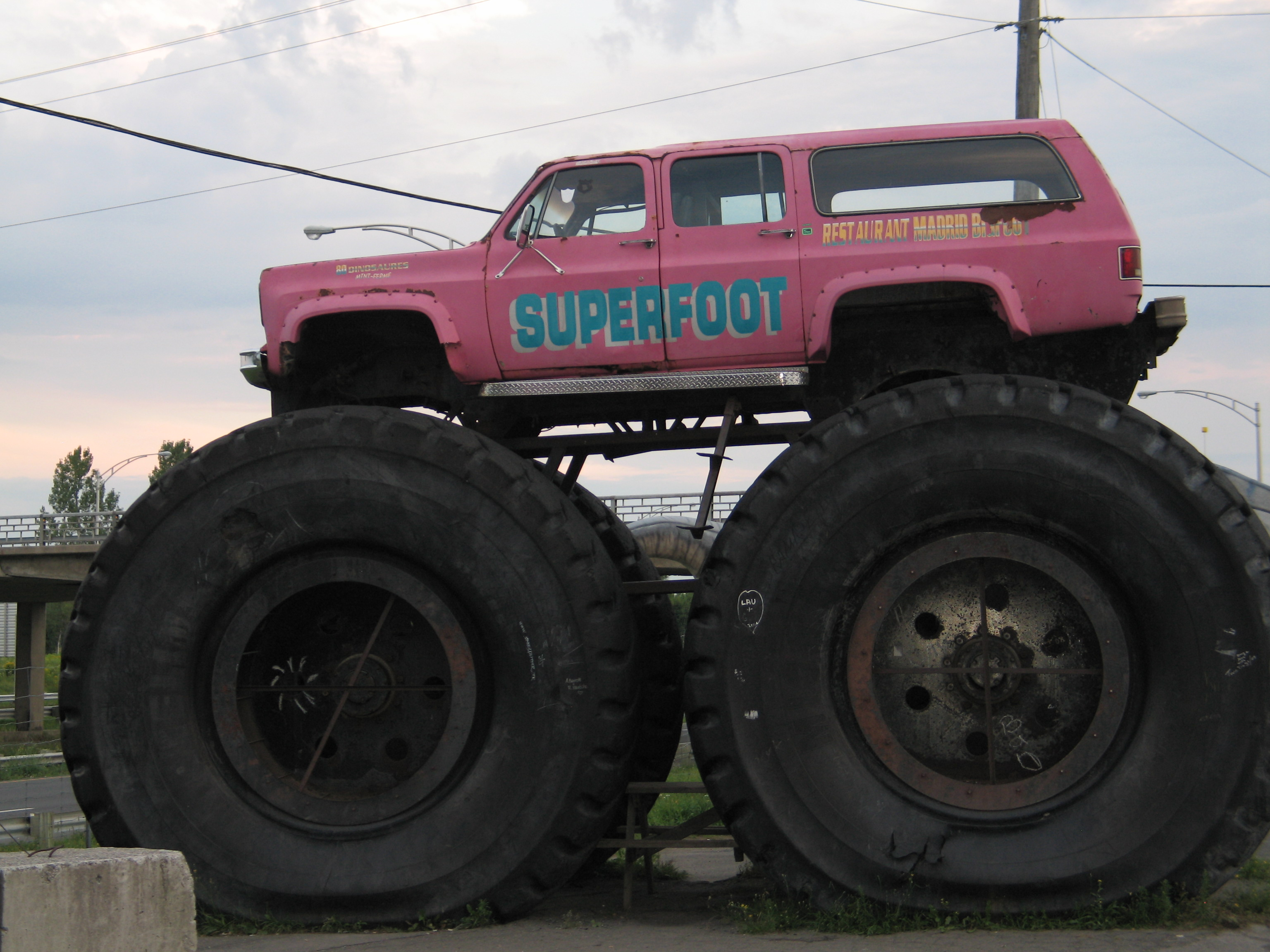 Superfoot is one of the monster trucks designed by Le Madrid's former owner, Richard Arel. This vehicle served as an attraction for 25 years at this Saint-Léonard-d'Aston, Quebec establishment.